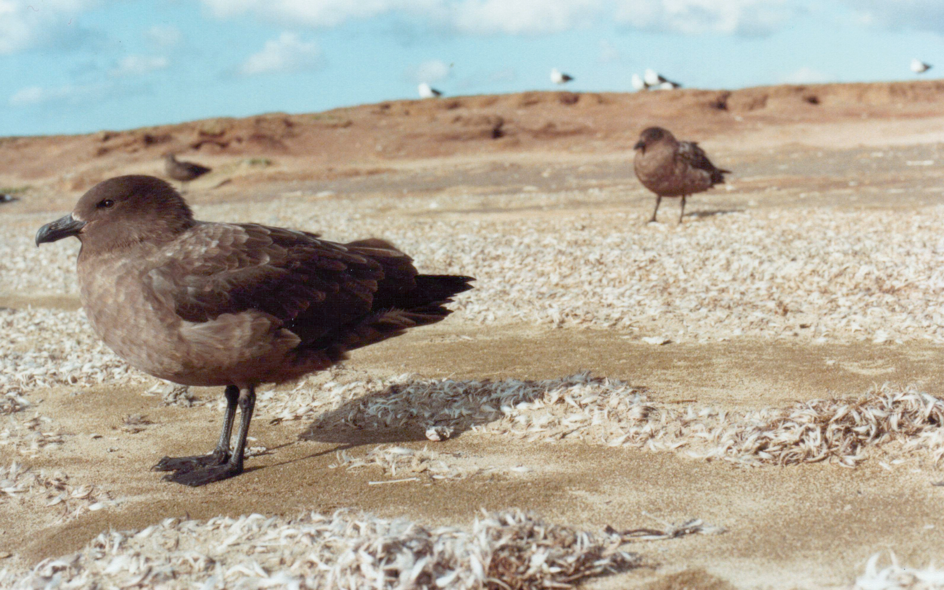 Brown Skua (Stercorarius antarcticus) - Kerguelen